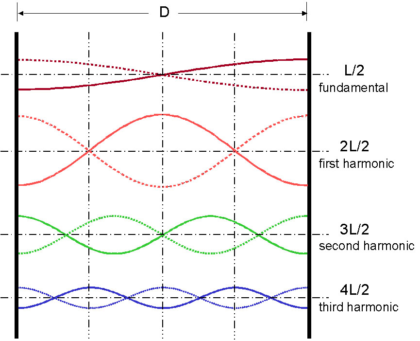 Fundamental and first 3 harmonics at surface of a prismatic water body, limited by vertical walls.